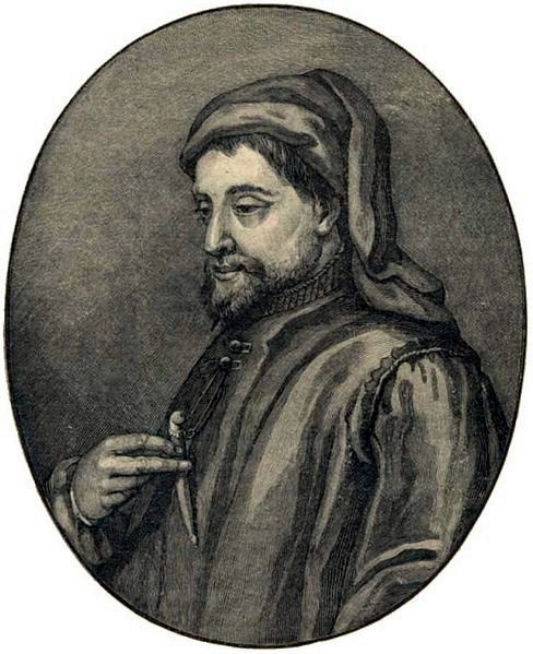 Geoffrey Chaucer